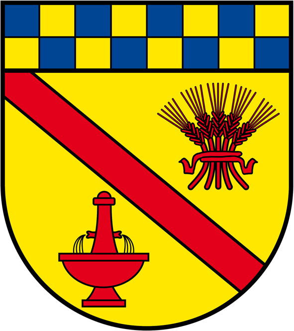 Coat of arms of Maitzborn